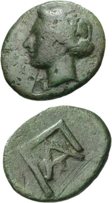 Bronze coins from the ancient town of Pale near Lixouri, Kefalonia.